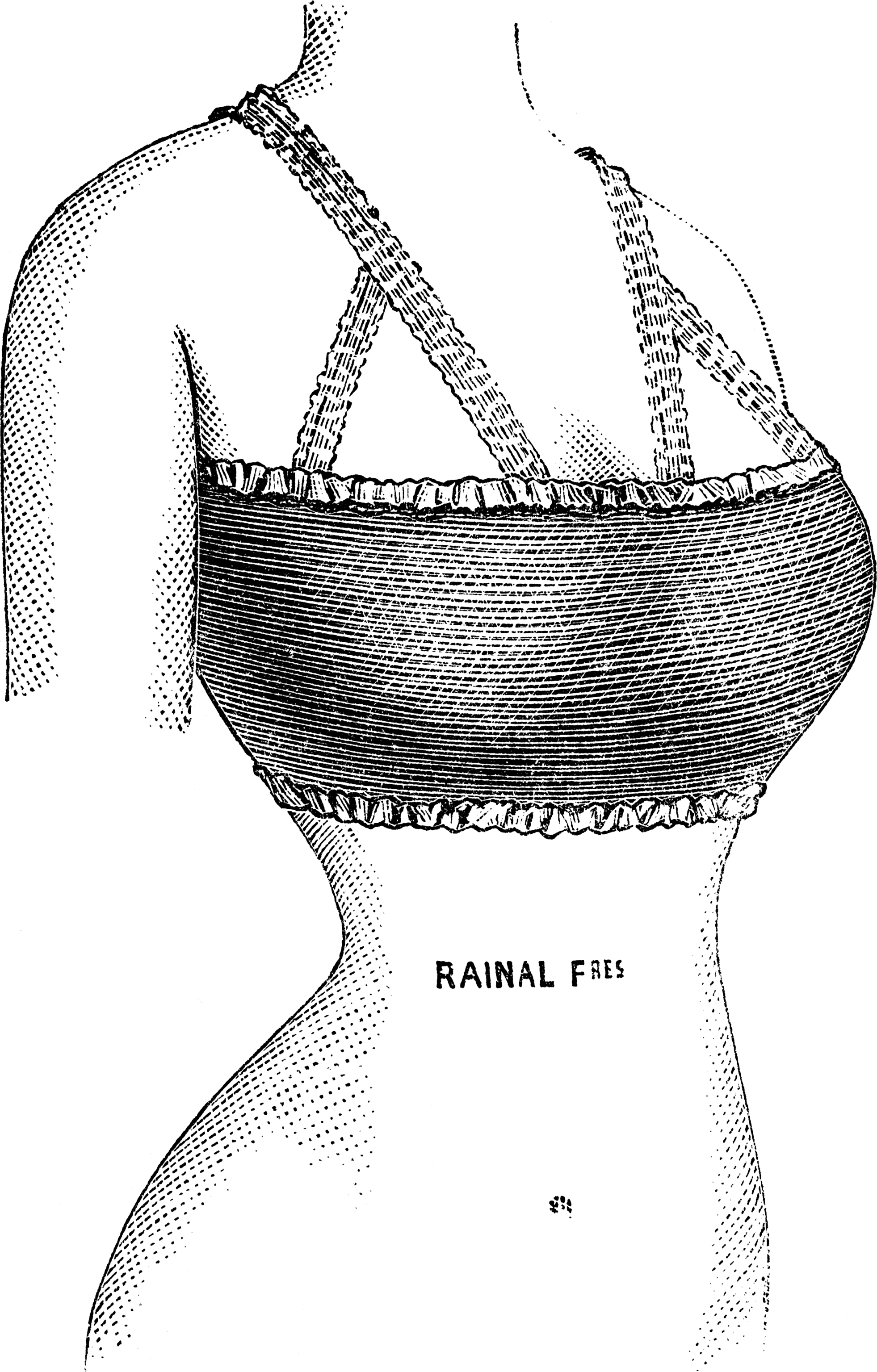 COMPRESSION ELASTIC - BRA The bra (Fig. 2056) is for people who can dispense with the use of the corset. It is also used for the night, for the seaside bathing or in cases of extreme breast tenderness. It consists of a very light fabric, it is laced to the dorsal and sets forward a very flexible busk. Doctors recommend wearing a bra during the night, for all women who have a fear of atrophy or weakness of their mammary glands because of the lack of suspensory ligaments of the breasts. The model (fig. 2355) is a kind of girdle which compensates and improves the deficiency of the natural girdle. It is intended to exert a methodical compression on all the surface of the breast. In this way it proves useful in cases of hypertrophy of the breast.